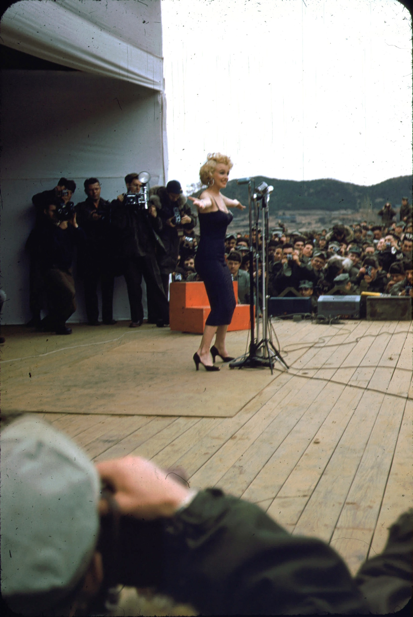 Marilyn Monroe appears onstage entertaining troops on her USO tour through Korea in 1954. From the Robert H. McKinley Collection (COLL/4802) at the Marine Corps Archives and Special Collections OFFICIAL USMC PHOTOGRAPH